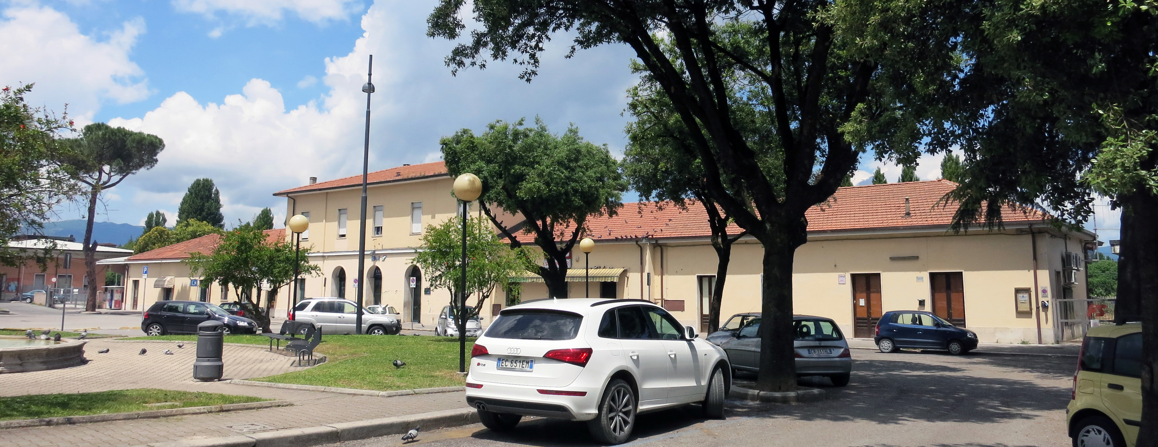 Railway station of Rieti (Lazio, Italy) on the Terni-L'Aquila-Sulmona line. View of the passenger building from the outside.